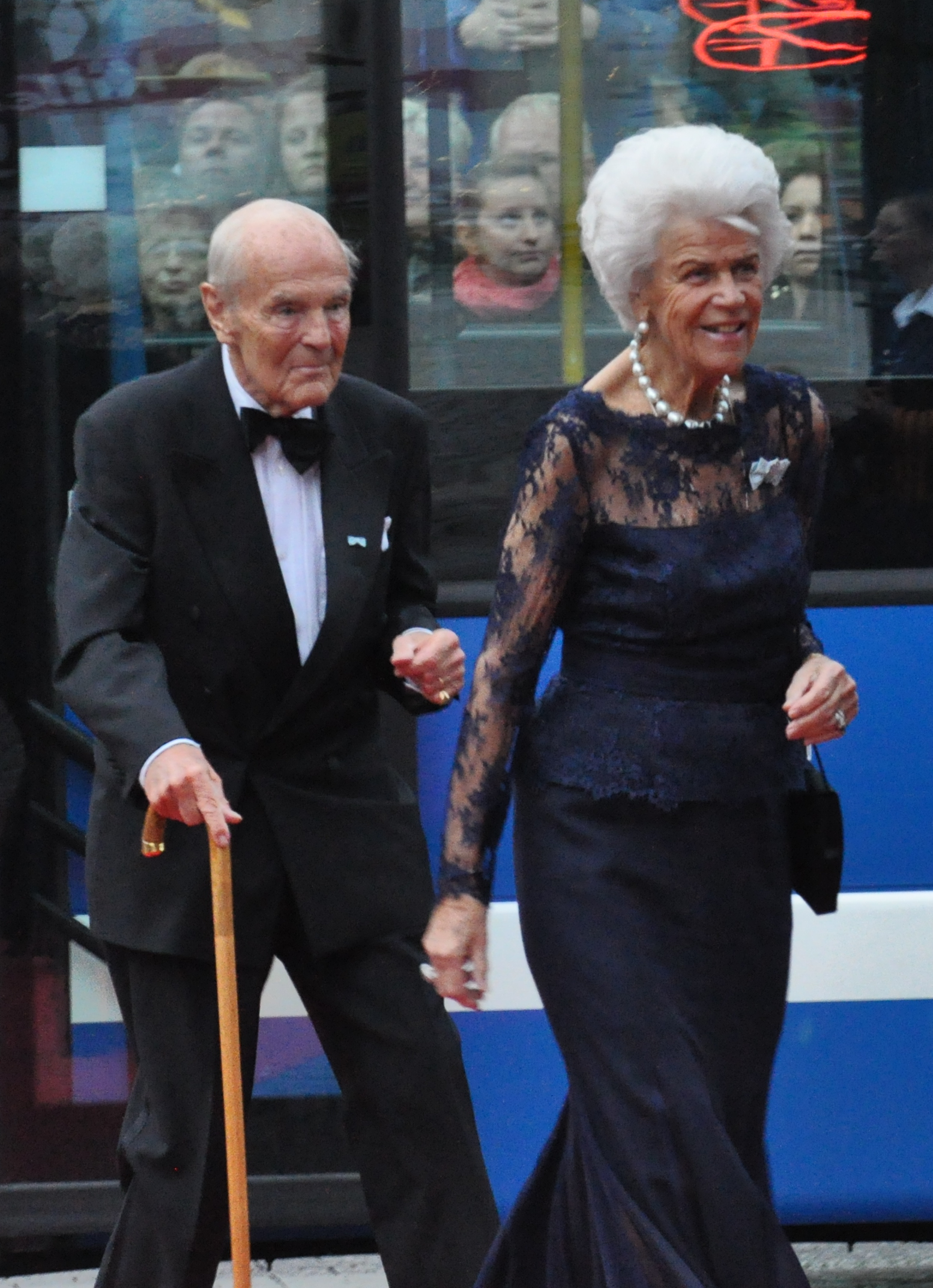 Wedding of Victoria, Crown Princess of Sweden, and Daniel Westling; Arrival of members for the Gouvernment and Swedish and foreign guests of hounour to the Riksdag's Gala Performance at Konserthuset. Hans-Gabriel and Alice Trolle-Wachtmeister.